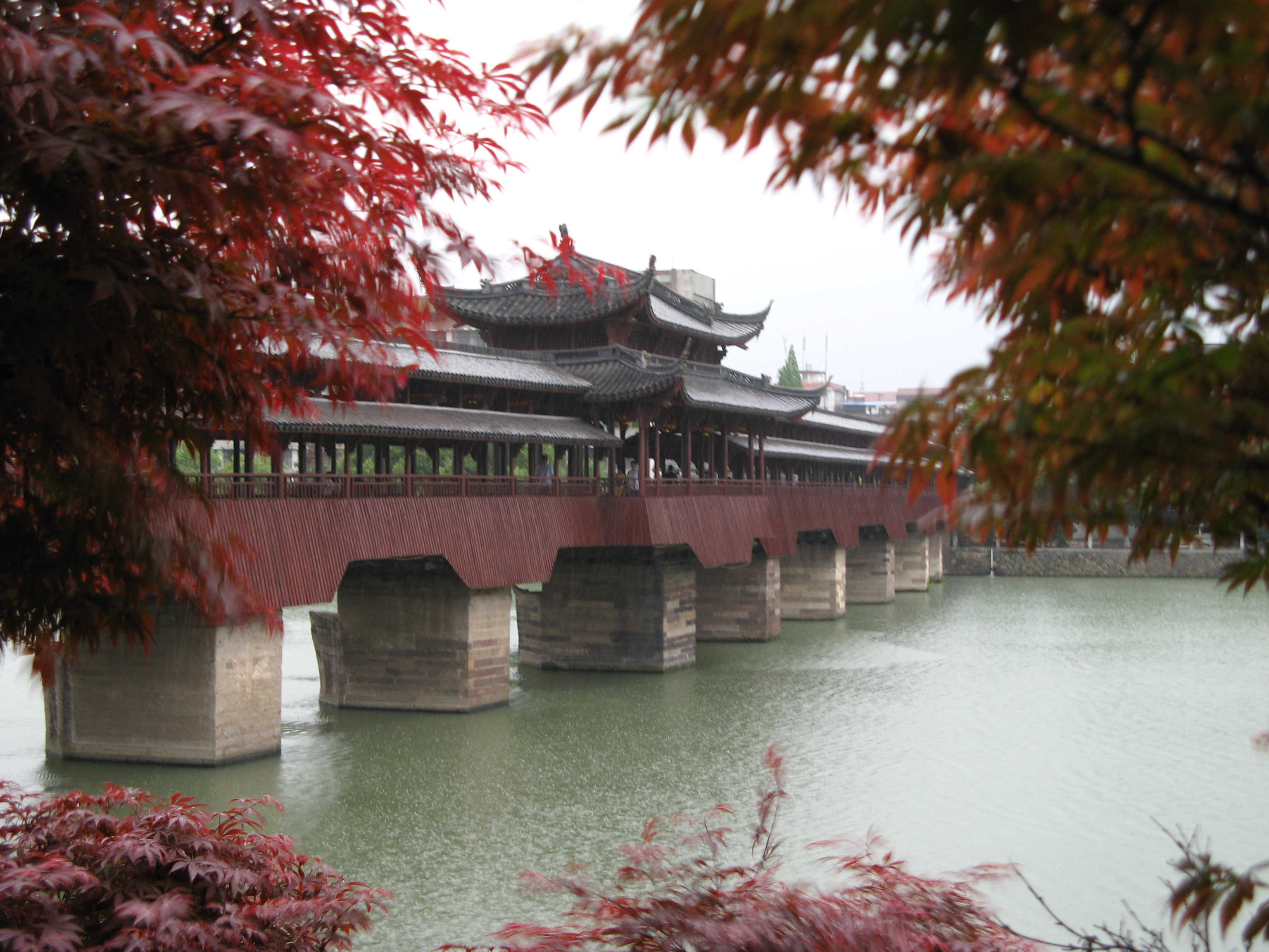 Xijin Bridge, a famous covered bridge in China. It's located in Yongkang, Jinhua, Zhejiang Province, PRChina.